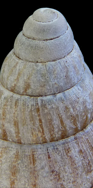 Photo of apex of the shell of Achatina vassei.